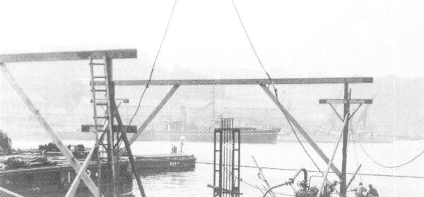 Natsushima-maru, mineboat of the Imperial Japanese Navy, later renamed to Natsushima as a 2nd class light minlayer.